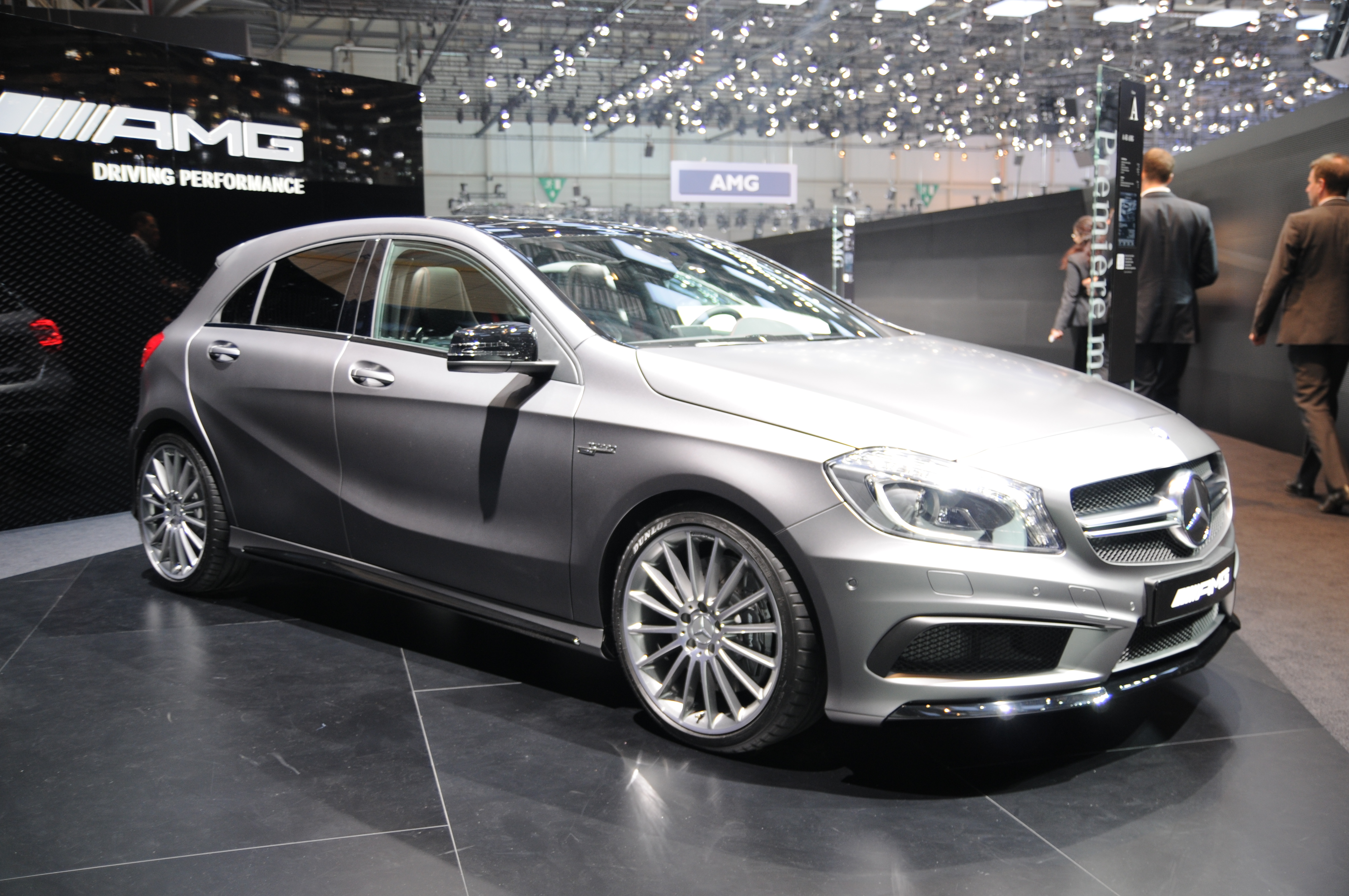 Geneva Motor Show 2013 (photos taken on the first press day)